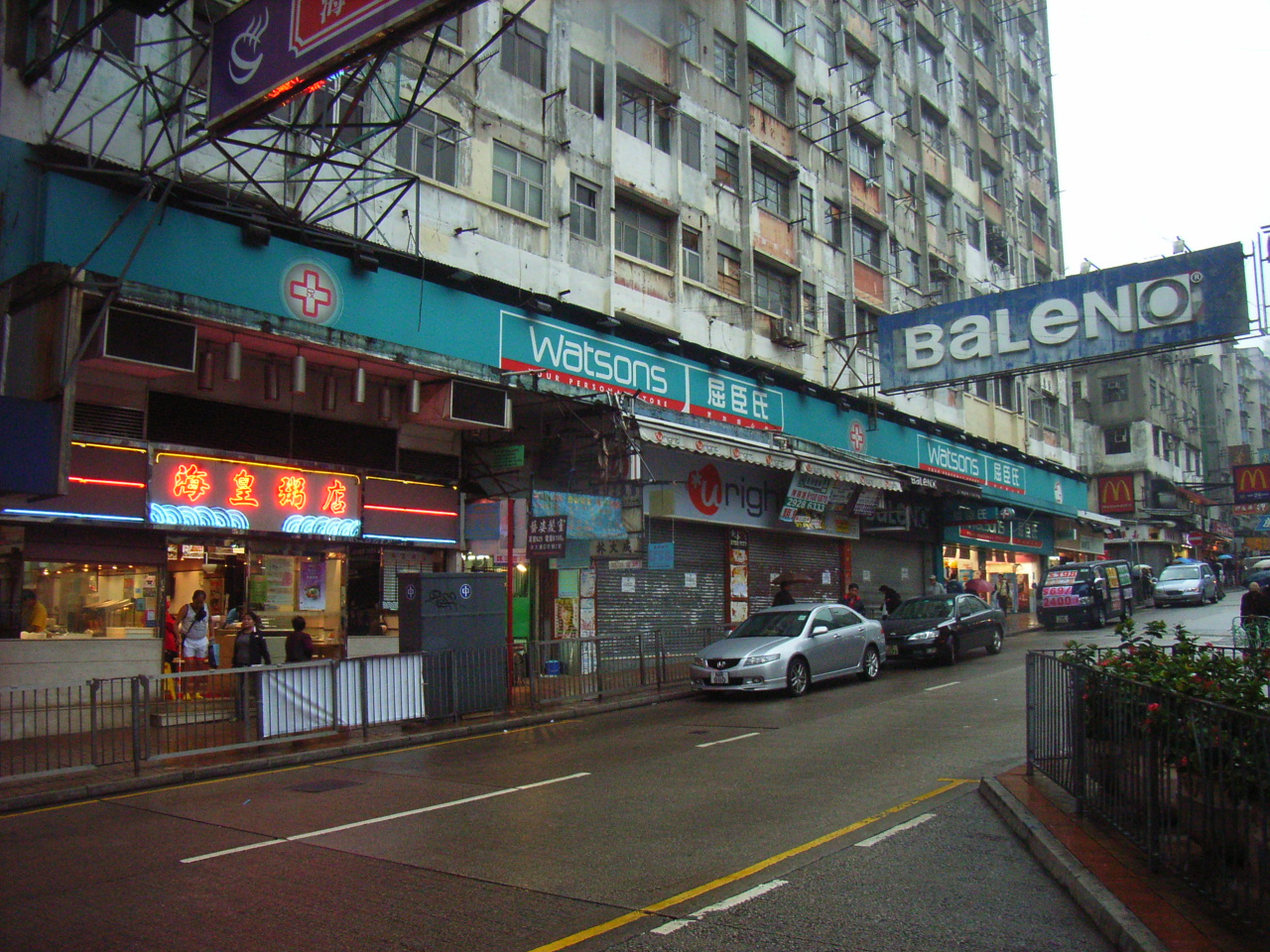 觀塘 Baleno 輔仁街 招牌 興順大廈 海皇粥店 陰天有雨